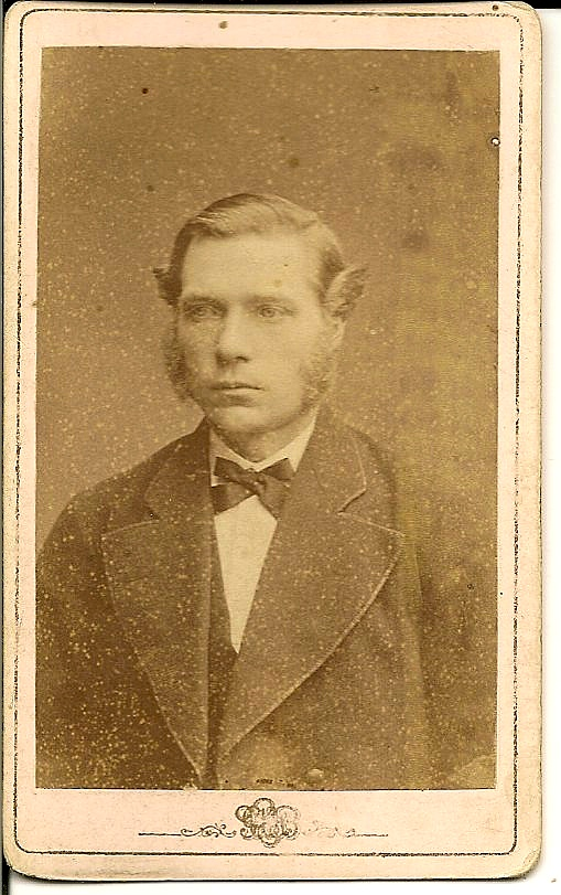 Swedish politician from late nineteenth century